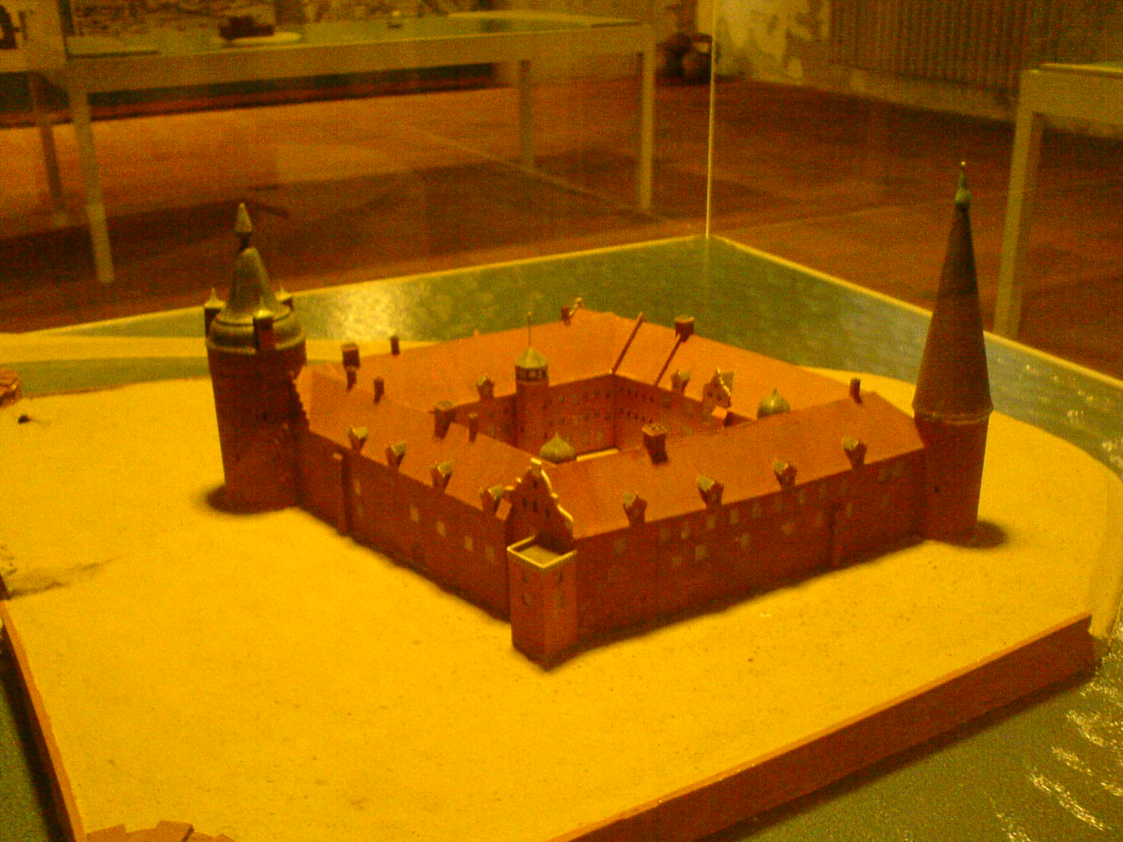 Description=Sonderborg Castle, like it was in the 16th century Source=myself Date=02.2007 Author=PodracerHH 19:37, 27 August 2007 (UTC)